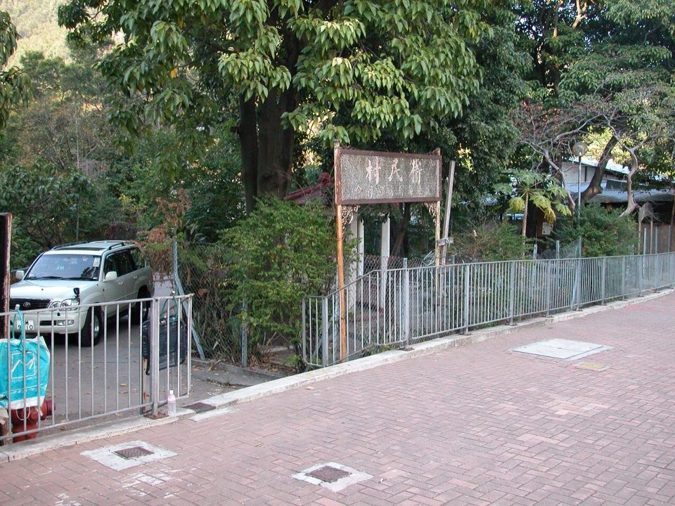 this picture was taken before the village was demolished. at that time, most residents had already moved away. exact date that the picture was taken was actually not clear (to be confirmed)